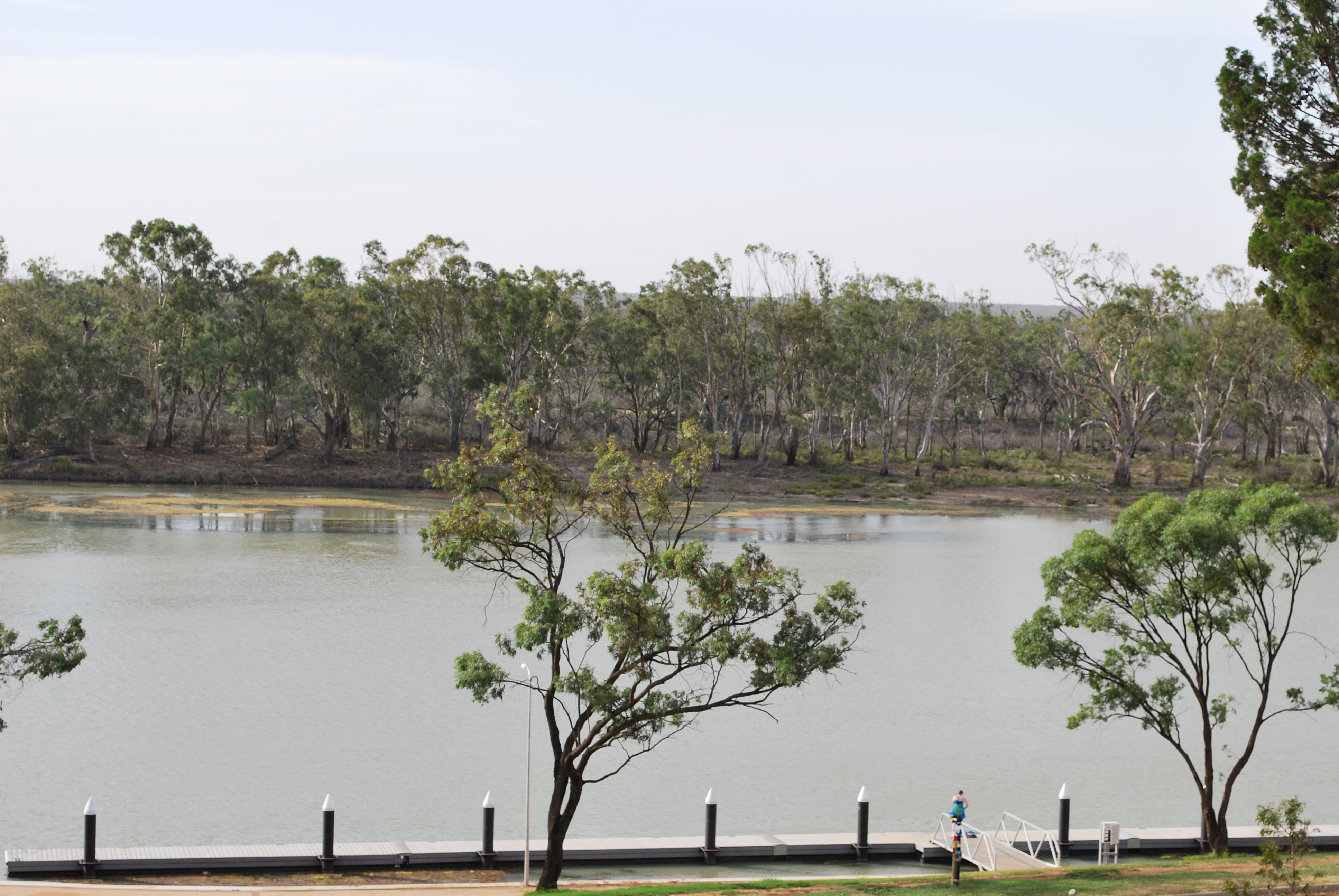 Murray River at Loxton, South Australia